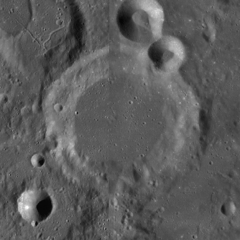 Bartels crater, on the moon. LRO Wide Angle Camera mosaic.